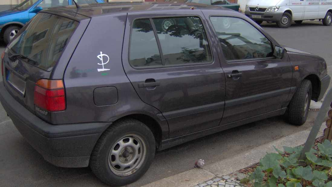 A 1994 Volkswagen Golf Pink Floyd, a special edition of the Golf issued in Europe in conjunction with Volkswagen's sponsorship of Pink Floyd's 1994 European tour. The model came with Pink Floyd decals and interior fabric motif, a high-grade stereo, and at the band's insistence was equipped with Volkswagen's most environmentally friendly engine. Picture taken by ProhibitOnions in Berlin, 2005.